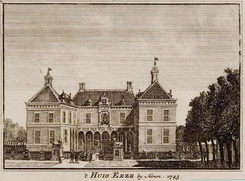 Castle Ezhe near Almen (Netherlands)label QS:Len,"Castle Ezhe near Almen (Netherlands)" label QS:Lnl,"'t HUIS EEZE bij Almen."